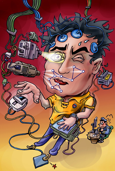 Cartoon of a man being checked on biometric features